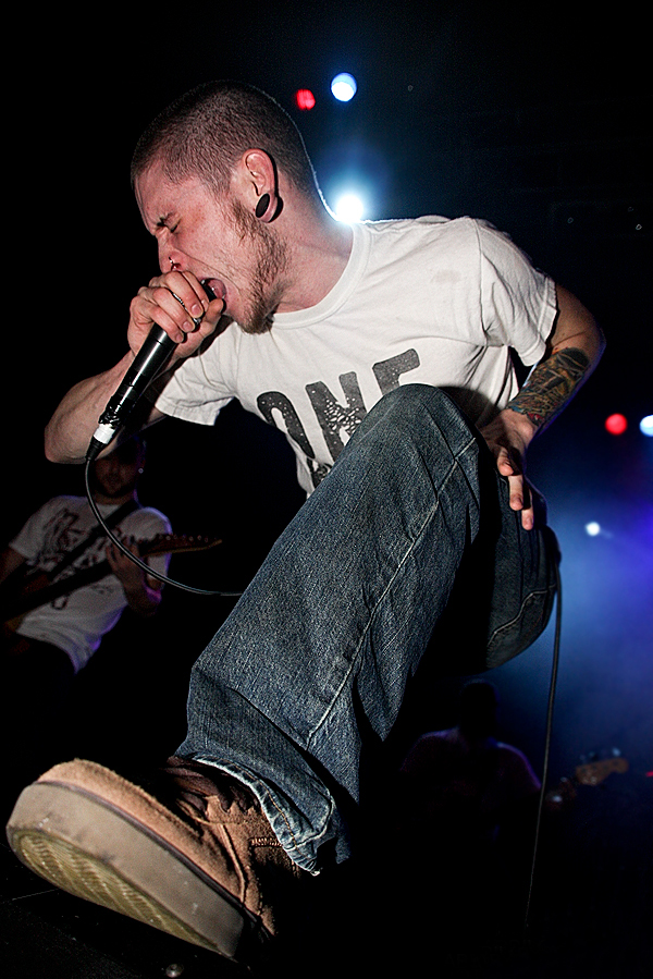 Whitechapel Live @ Never Say Die, London 2008